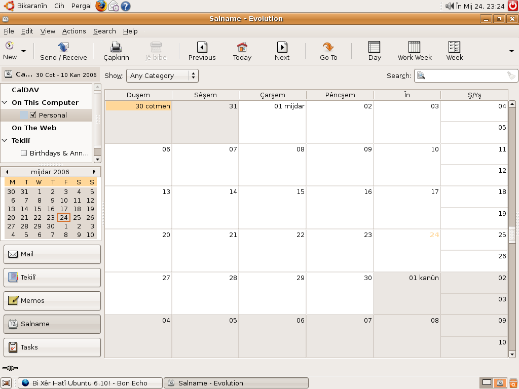 Kurdish Ubuntu Evolution (software)